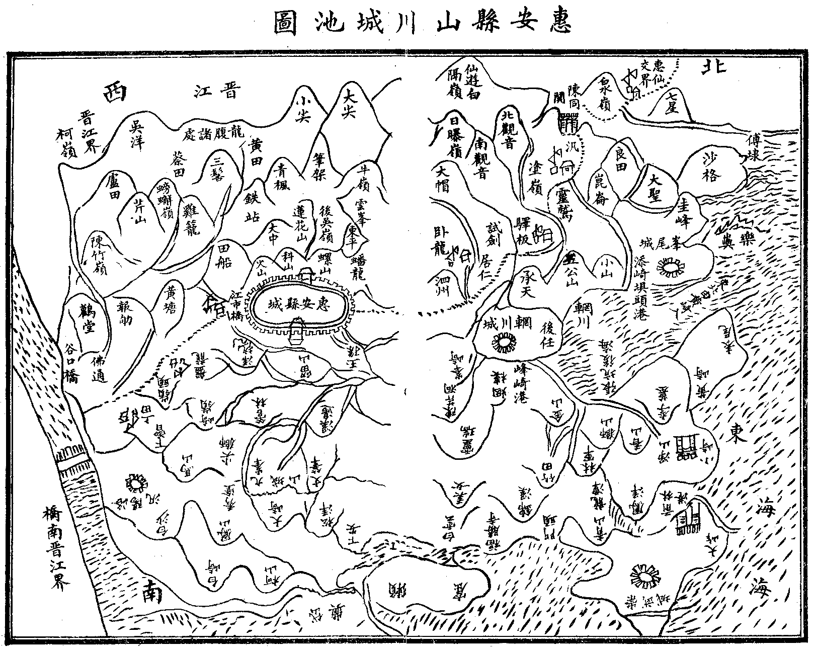 Map of Huian from "Chorography of Huian"